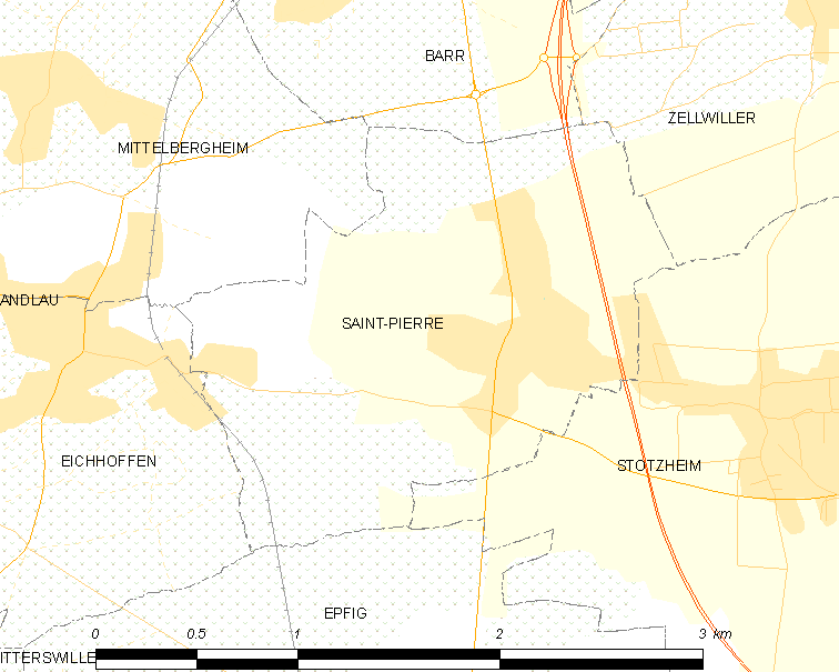 Map of French municipality